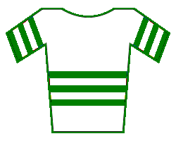 Jersey o the leader of Volta a Cataluña